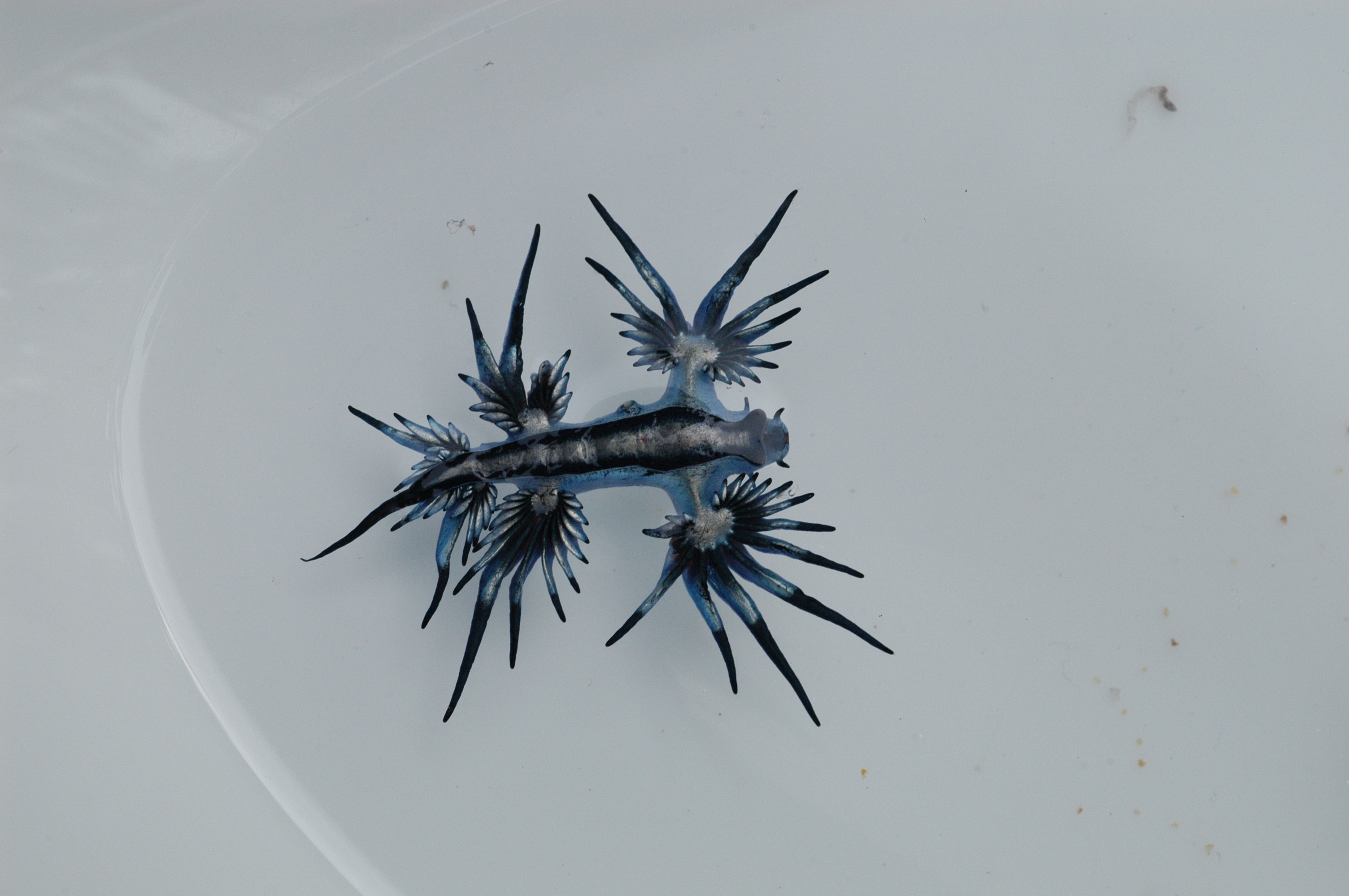 Blue Sea Slugs washed up onto MacMasters Beach. For more info checkout